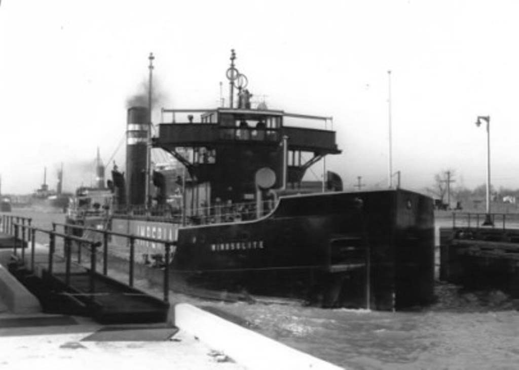 Windsolite, a small great lakes freigner Original caption: "April 1, 1938 in The Welland Canal. (From the D. Mackie collection)"